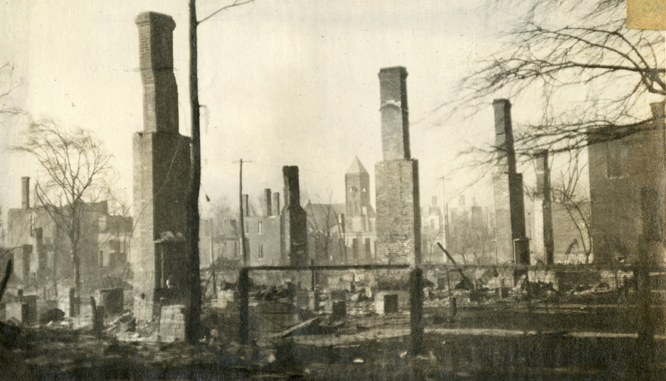 A photo of a series of photos from the East Nashville Fire of 1916